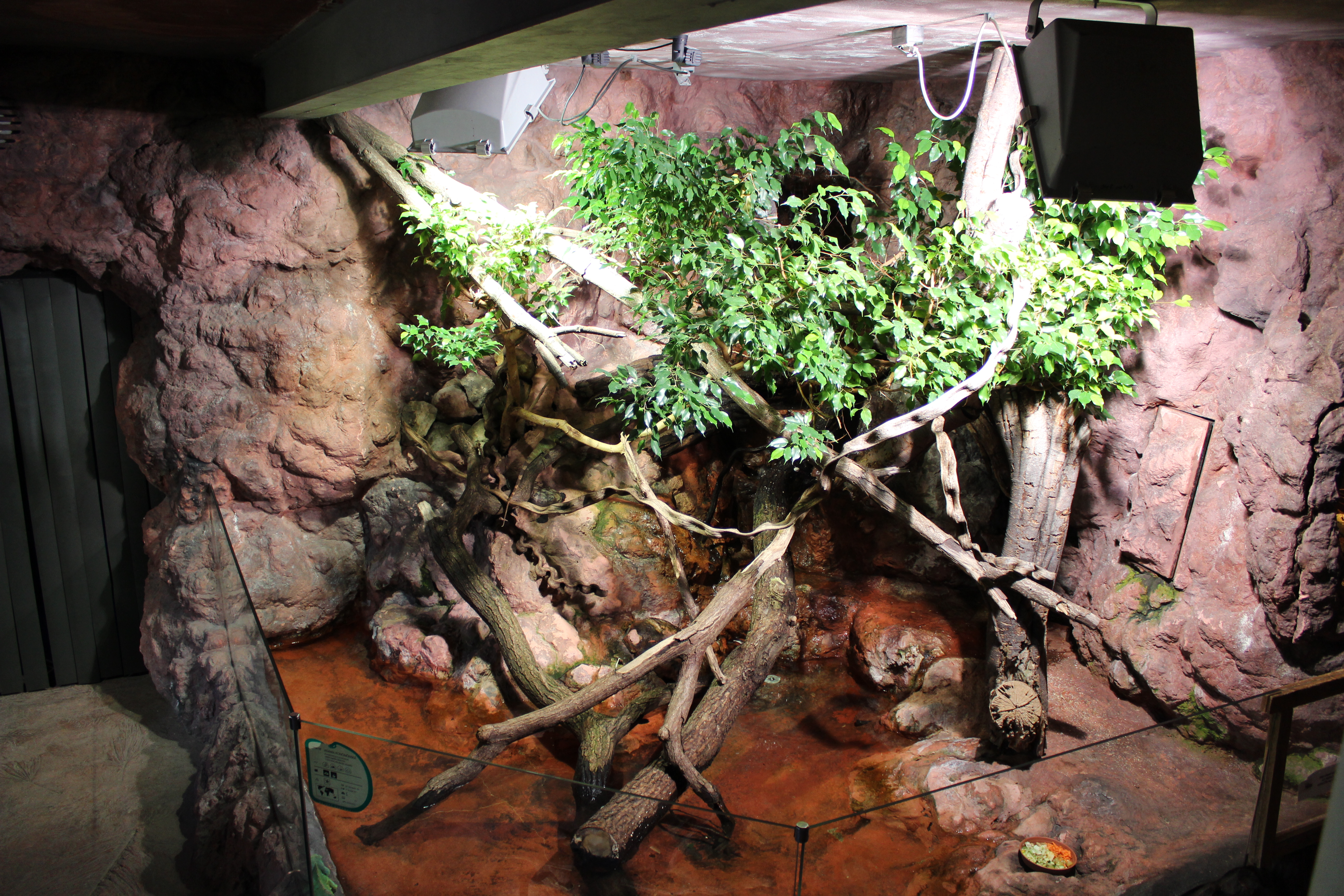 Exhibition dedicated to the island of Haiti on the third floor of the exhibition Paradise Islands (Rajské ostrovy in the Czech language).